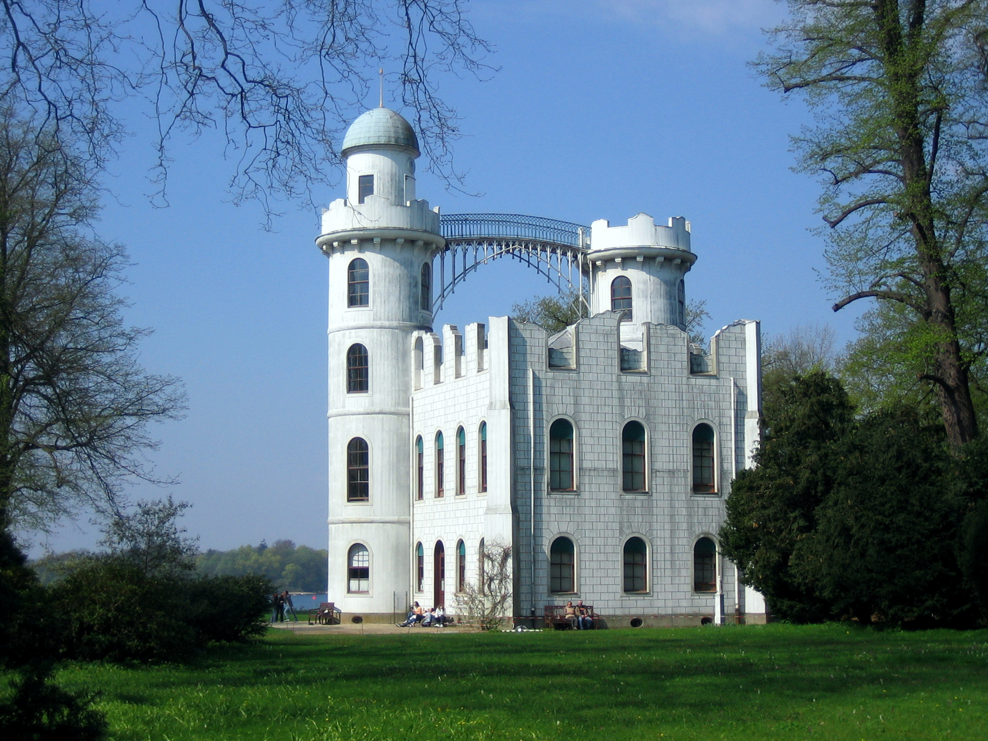 Castle on the Pfaueninsel in Berlin, Germany.